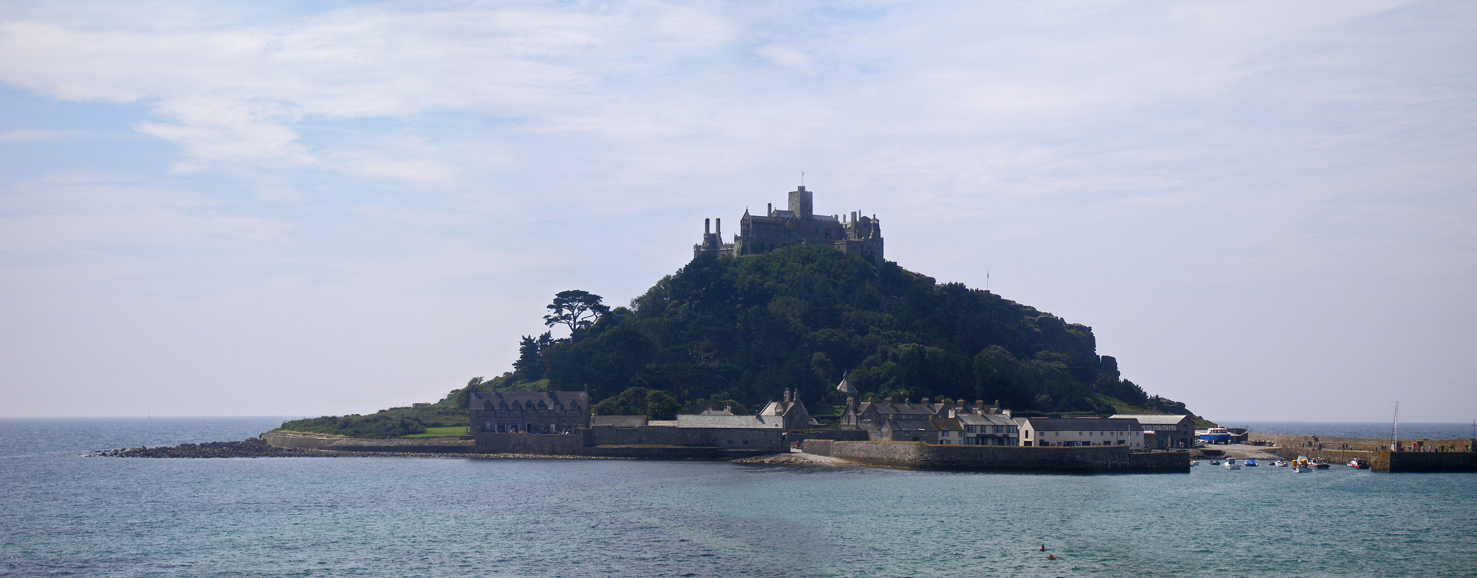 St-Michael Mount at high-tide from Marazion